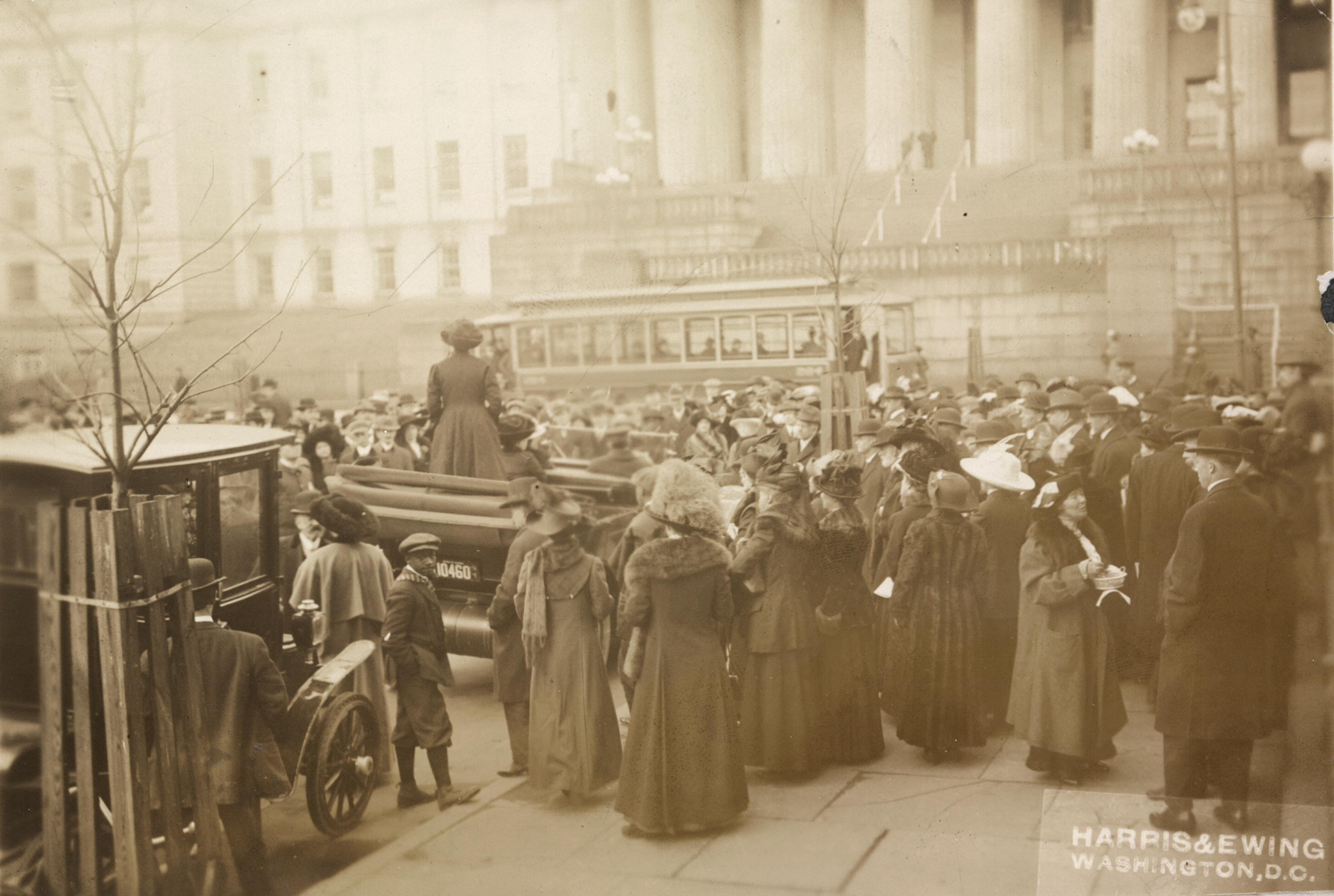 Summary: Photograph of the back of Mary Beard, standing in car, speaking to crowd on street, Interior Dept. building in background. Automobiles and trolley on street.